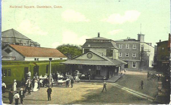 Postcard of Railroad Square in Danielson, Connecticut, sent in 1918